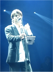 Denez Prigent at a concert in Lorient, Brittany